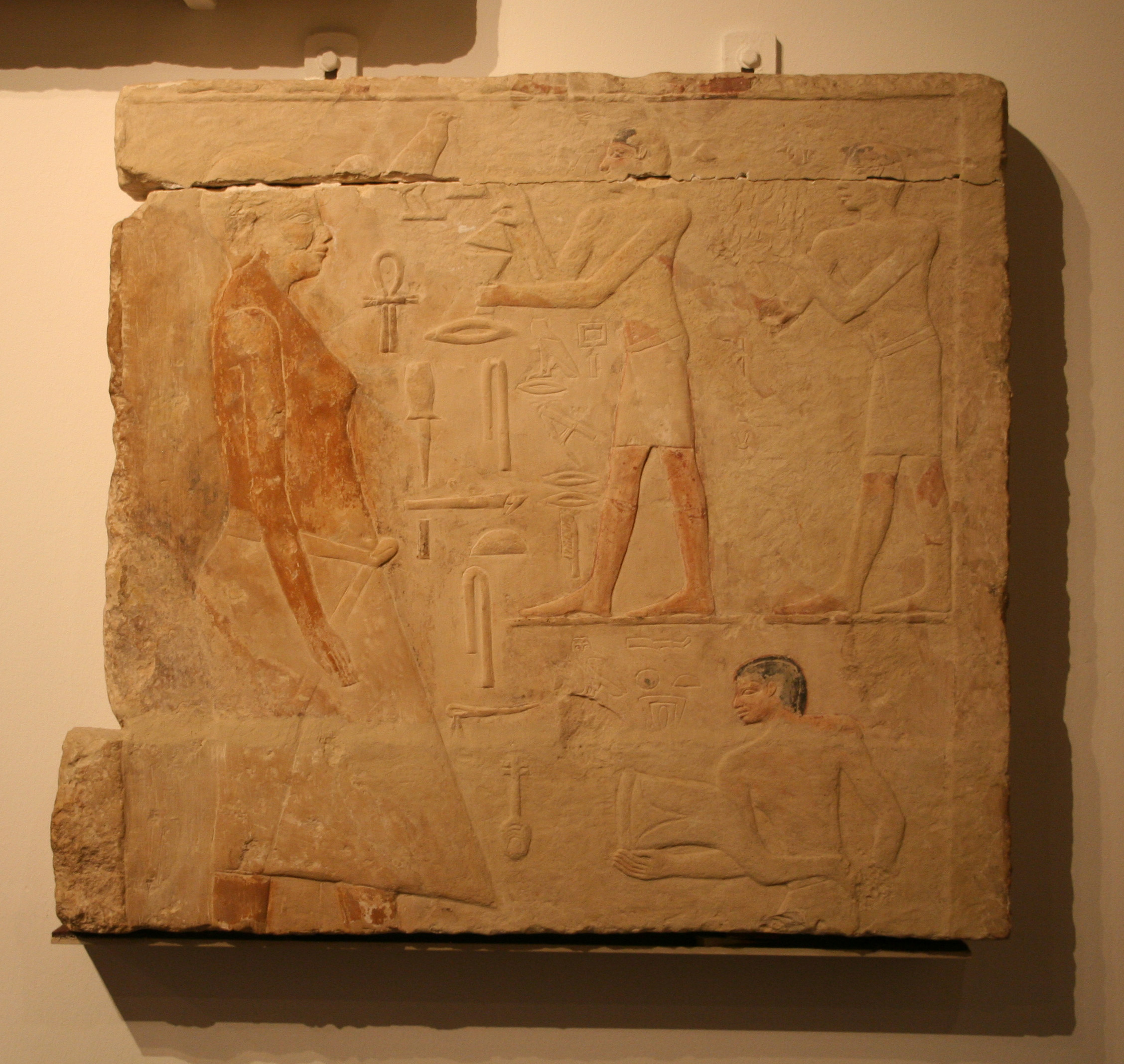 Depiction of a statue of Seshemnefer IV. 6th dynasty. Giza necropolis. Limestone. H 70.3 cm. IN 3190. Roemer-Pelizaeus Museum, Hildesheim